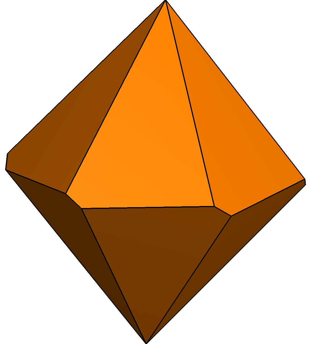 hexagonal trapezohedron variation